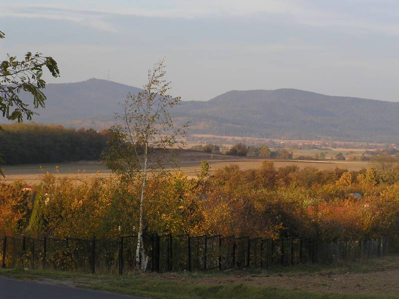 Ślęża Mt. with Radunia Mt. in Ślęża Masiff, Lower Silesia, Poland.